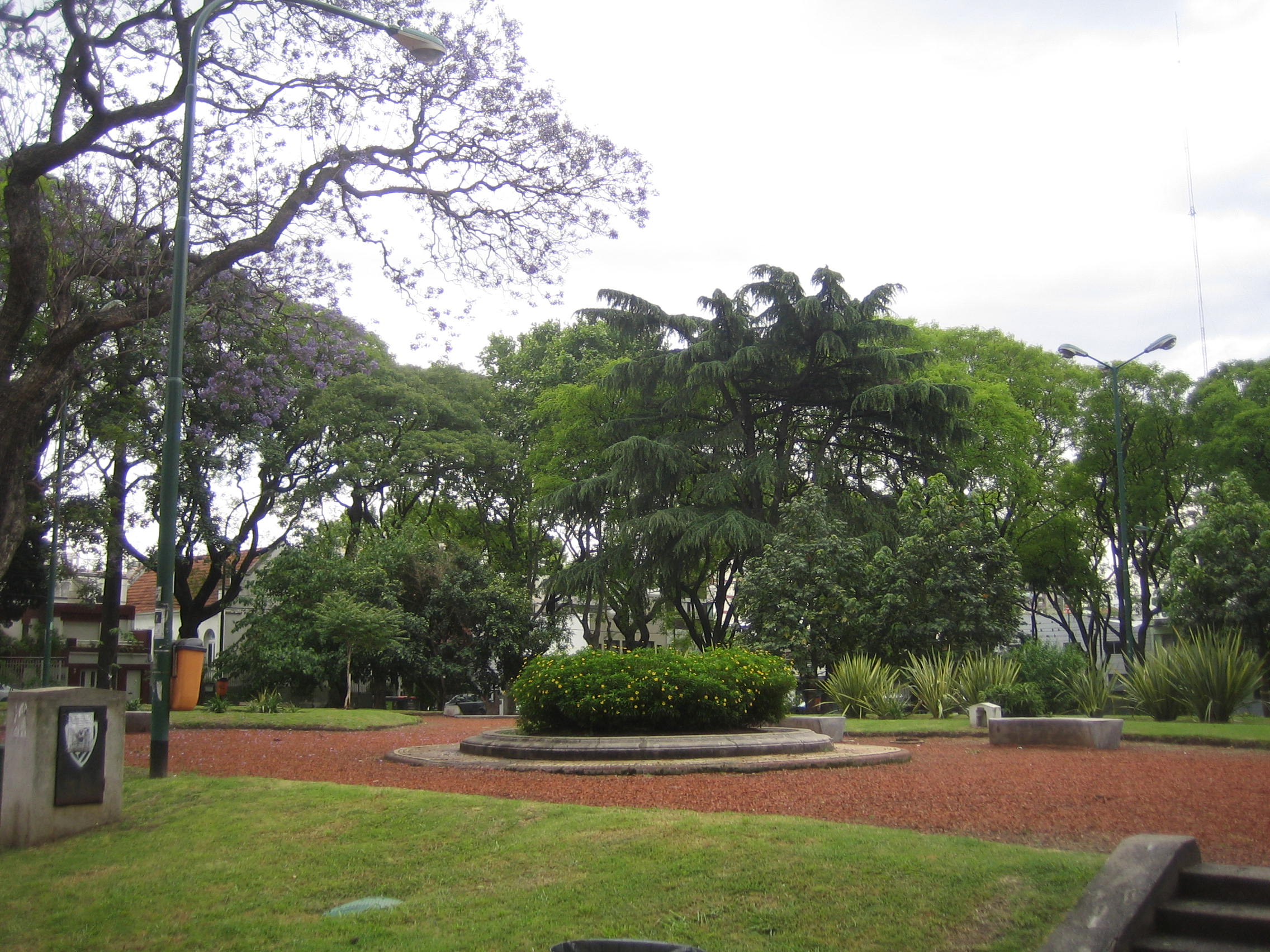 Benjamín Vicuña Mackenna Park